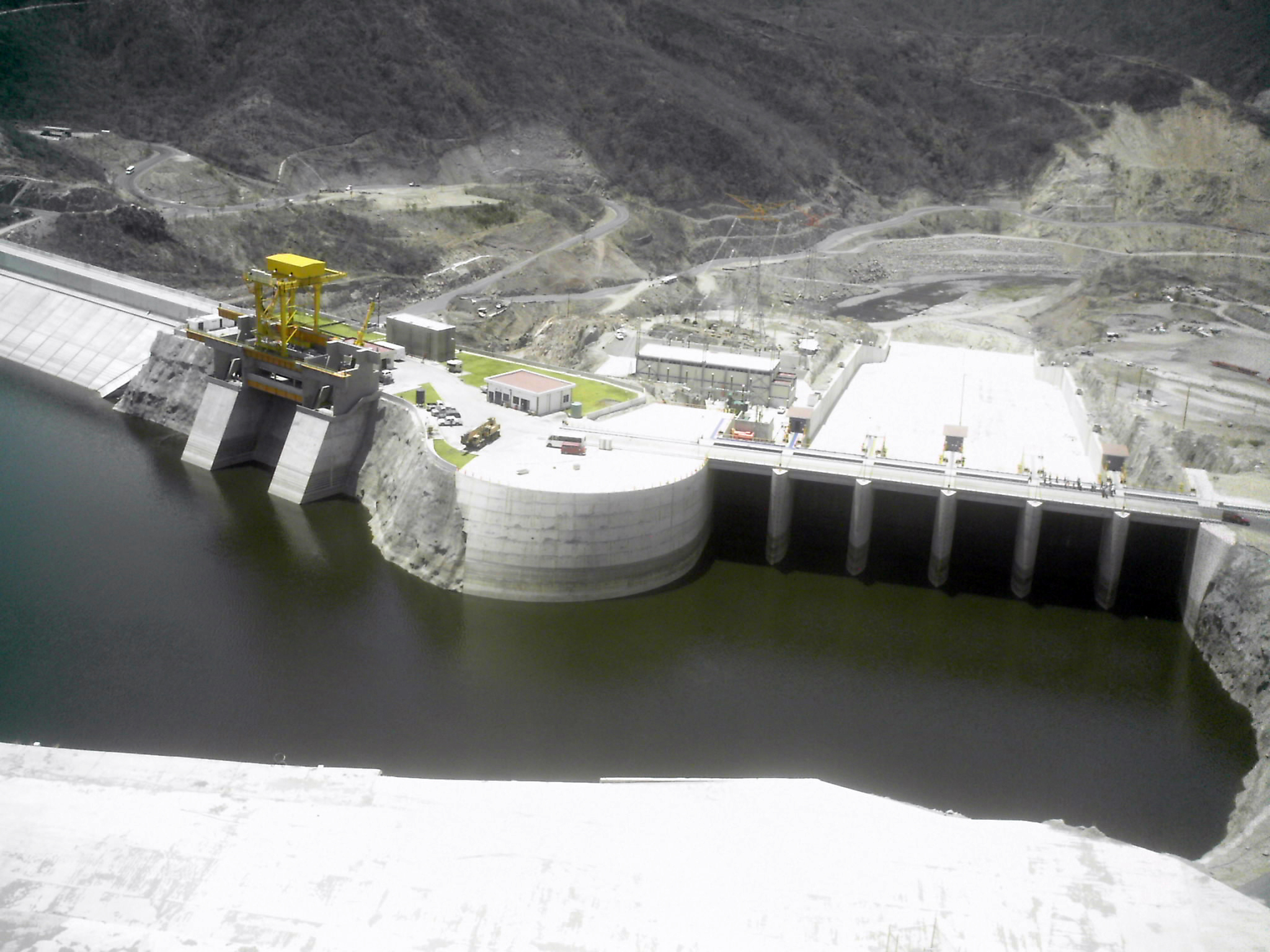 A panoramic picture of the El Cajón dam, in the state of Nayarit, Mexico, taken during a school field trip.